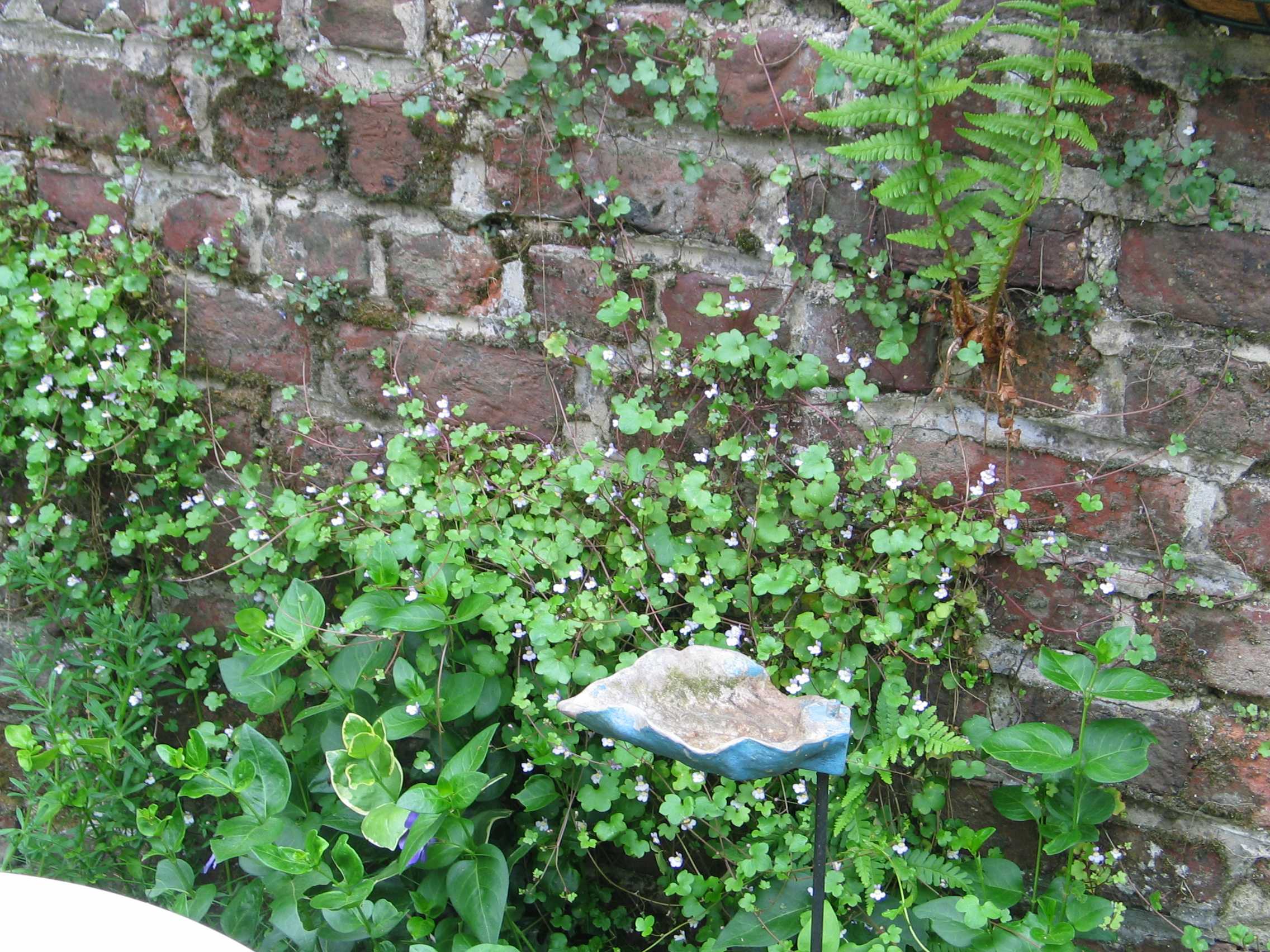 Brick wall with Cymbalaria muralis